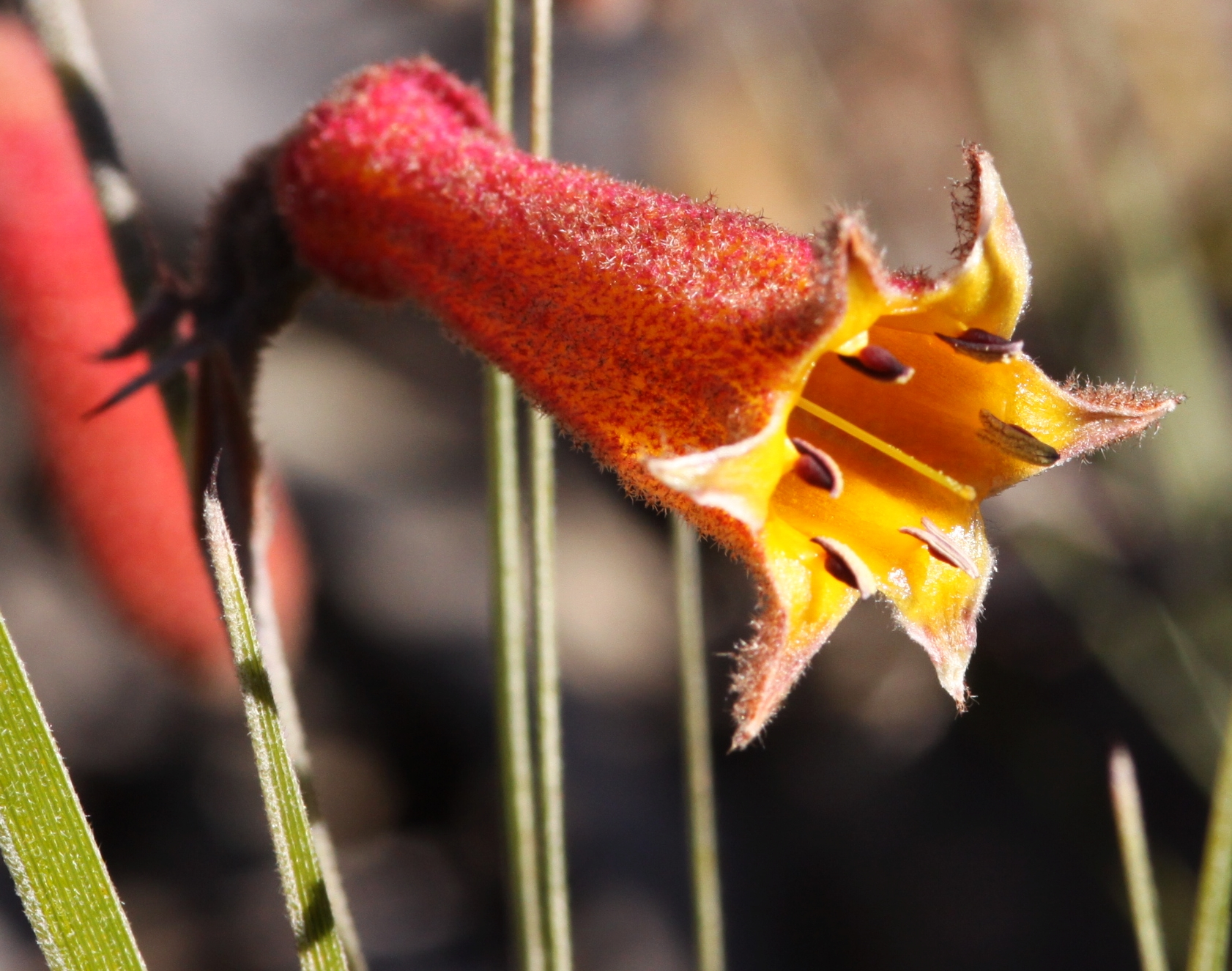 Winter Bell at Leseur National Park